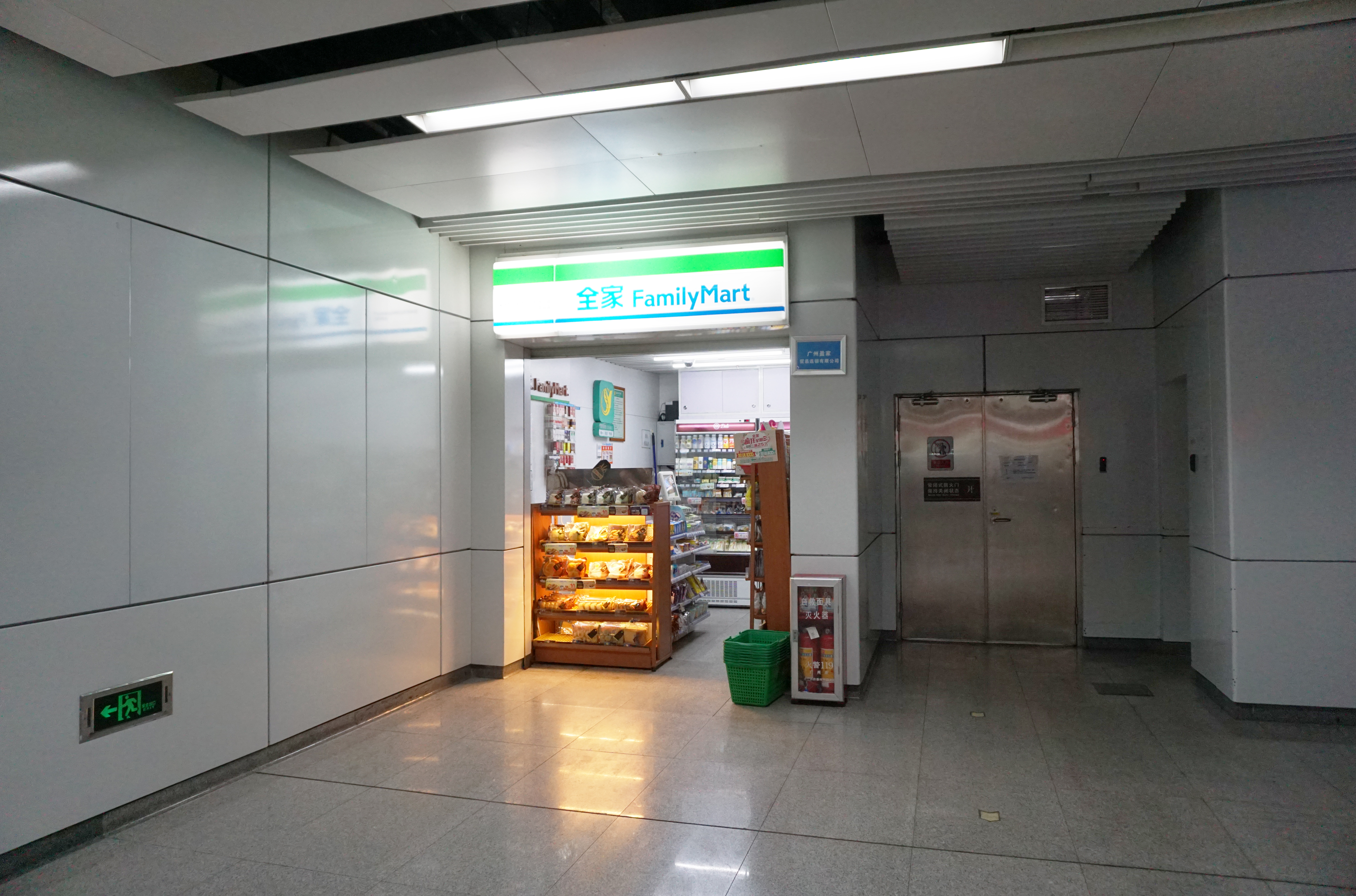 Yijing Station in Luohu District, Shenzhen.